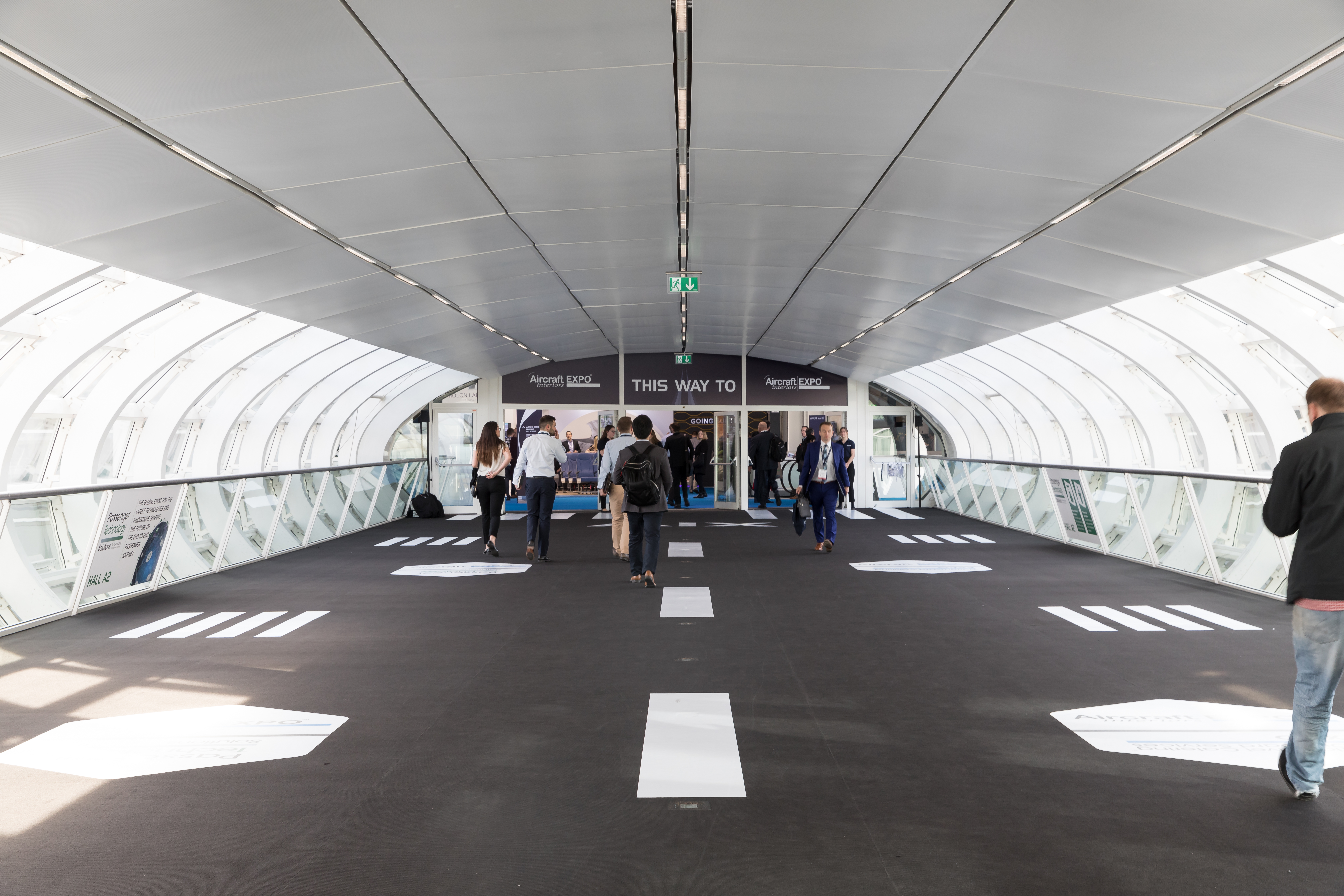 Passenger Experience Week Hamburg 2018